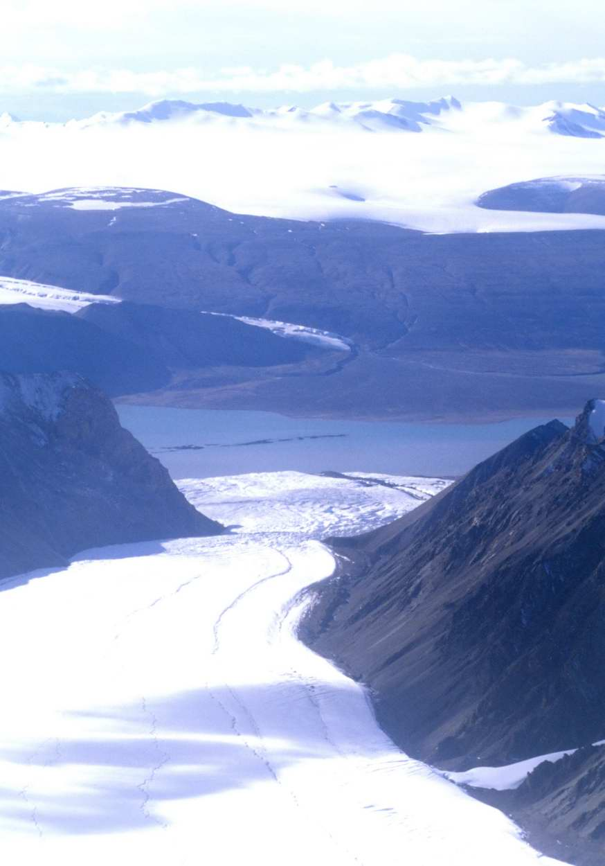 Brent Glacier (Osborn Range), Ellesmere Island, Nunavut, Canada, flowing down to Tanquary Fiord; opposite side: Mount Kennedy Icecap